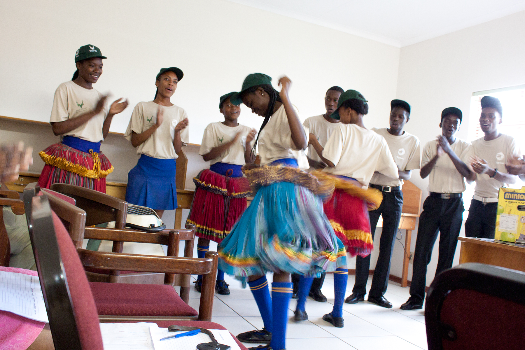 Traditional welcome dance from students in Mpumalanga South Africa. This is an image with the theme "Play" from: South Africa